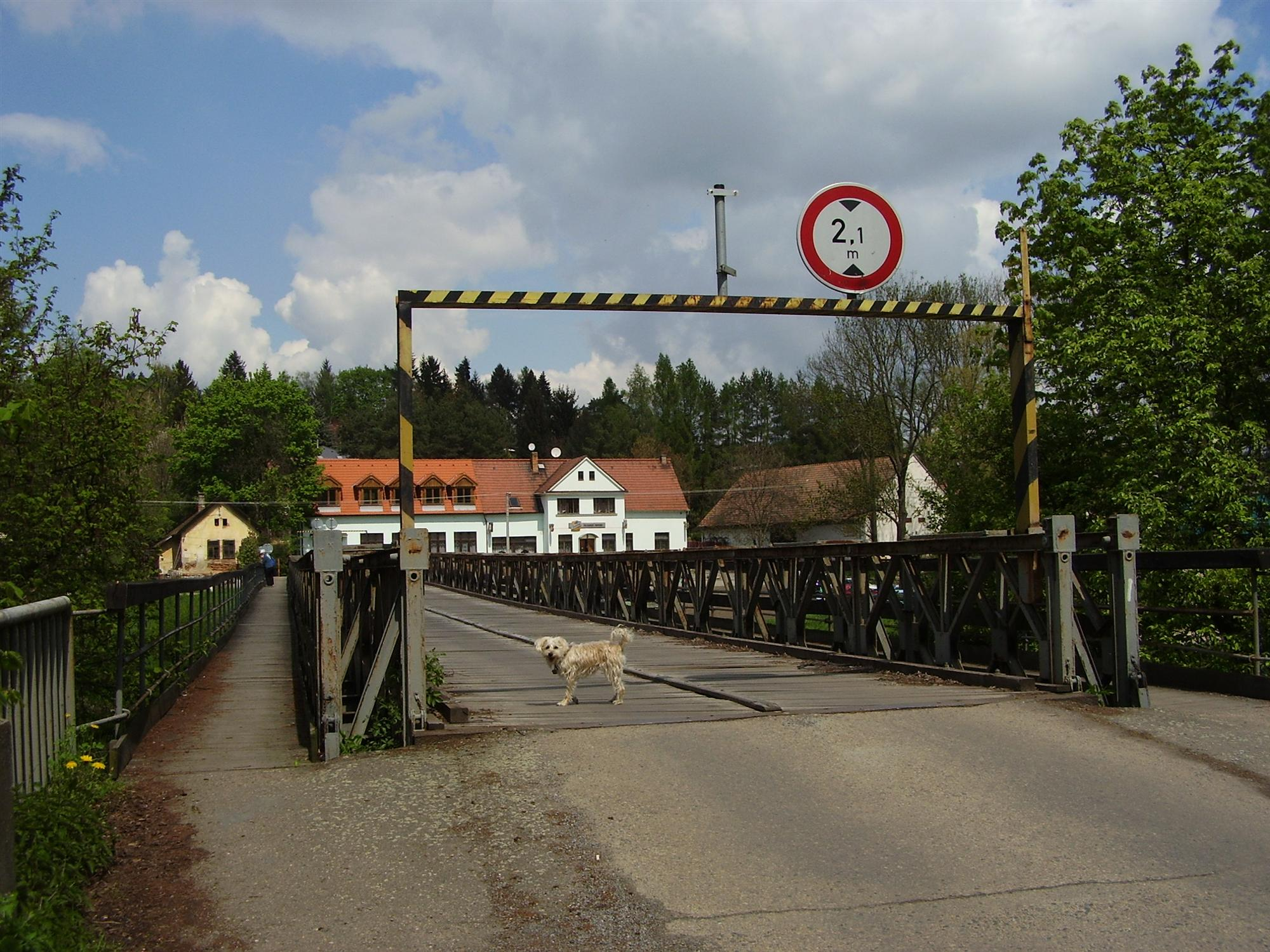 Wooden bridge over Sázava between Lštění and Čtyřkoly